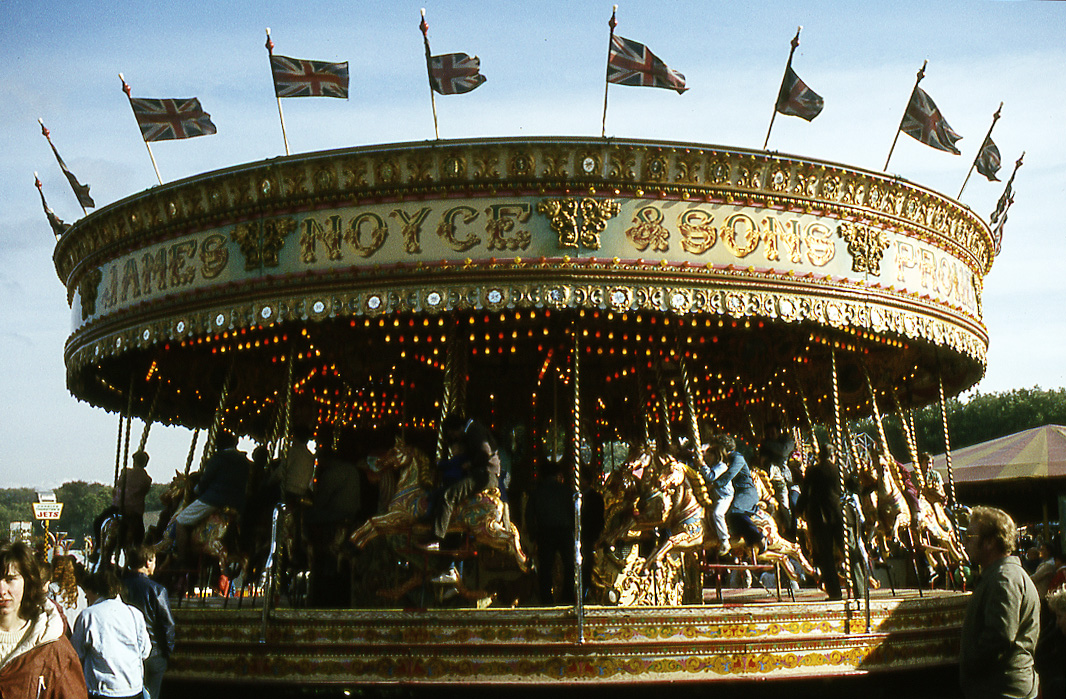 This is a scan from a 35mm transparency which I took in 1983 at the famous Goose Fair, Nottingham, England. It shows James Noyce & Sons' traditional roundabout (or "gallopers") with brightly-painted wooden horses that move up and down as the roundabout turns. This scan is in the Public Domain (however, I retain ownership and copyright of the original transparency and any higher-resolution scans derived from it). If this image is used outside Wikipedia a photographer's credit (Simon Garbutt) would be much appreciated! SiGarb 23:00, 2 January 2006 (UTC)